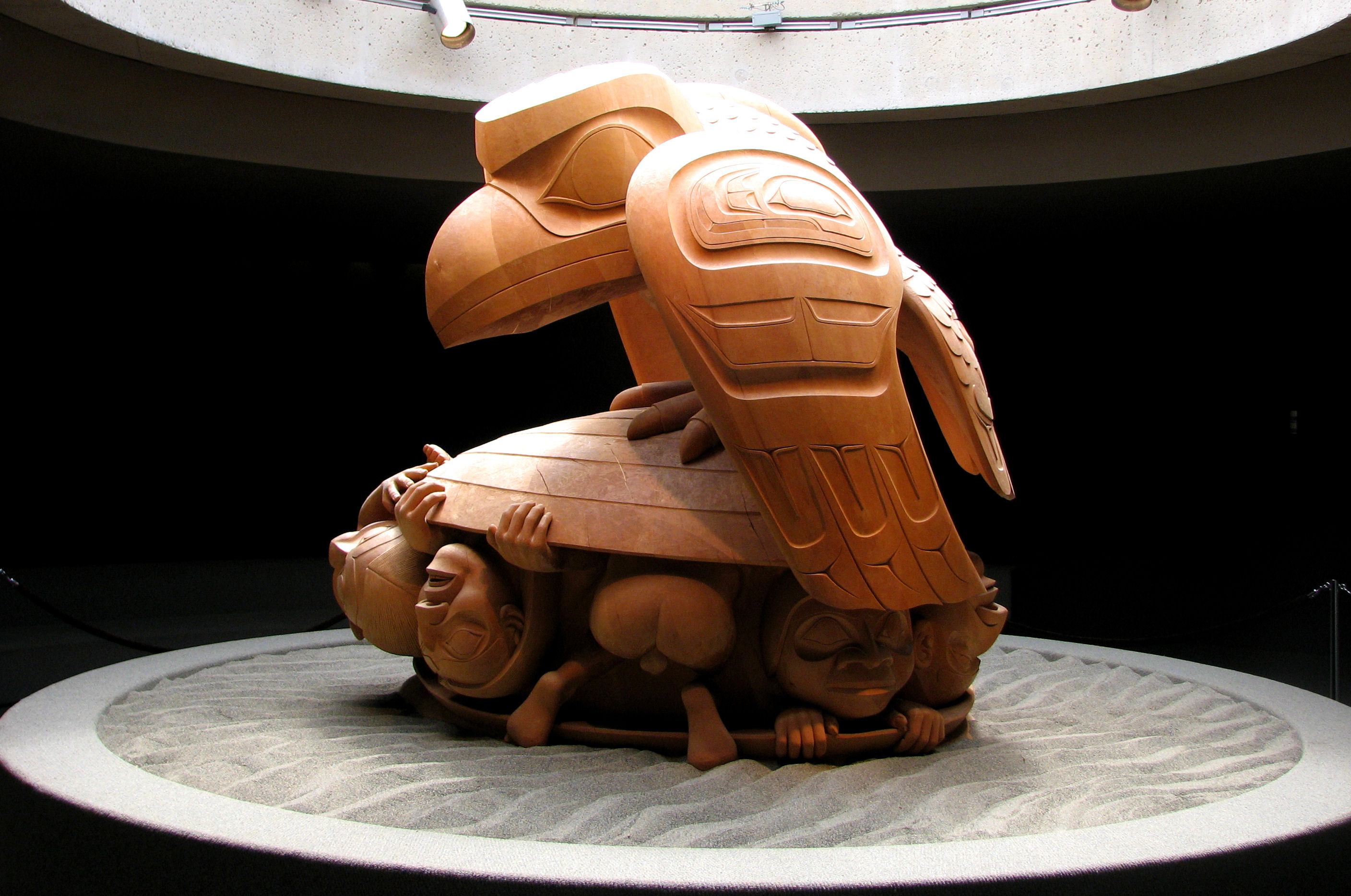 "Raven and the First Men" by Bill Reid, Museum of Anthropology, UBC, Vancouver, British Columbia